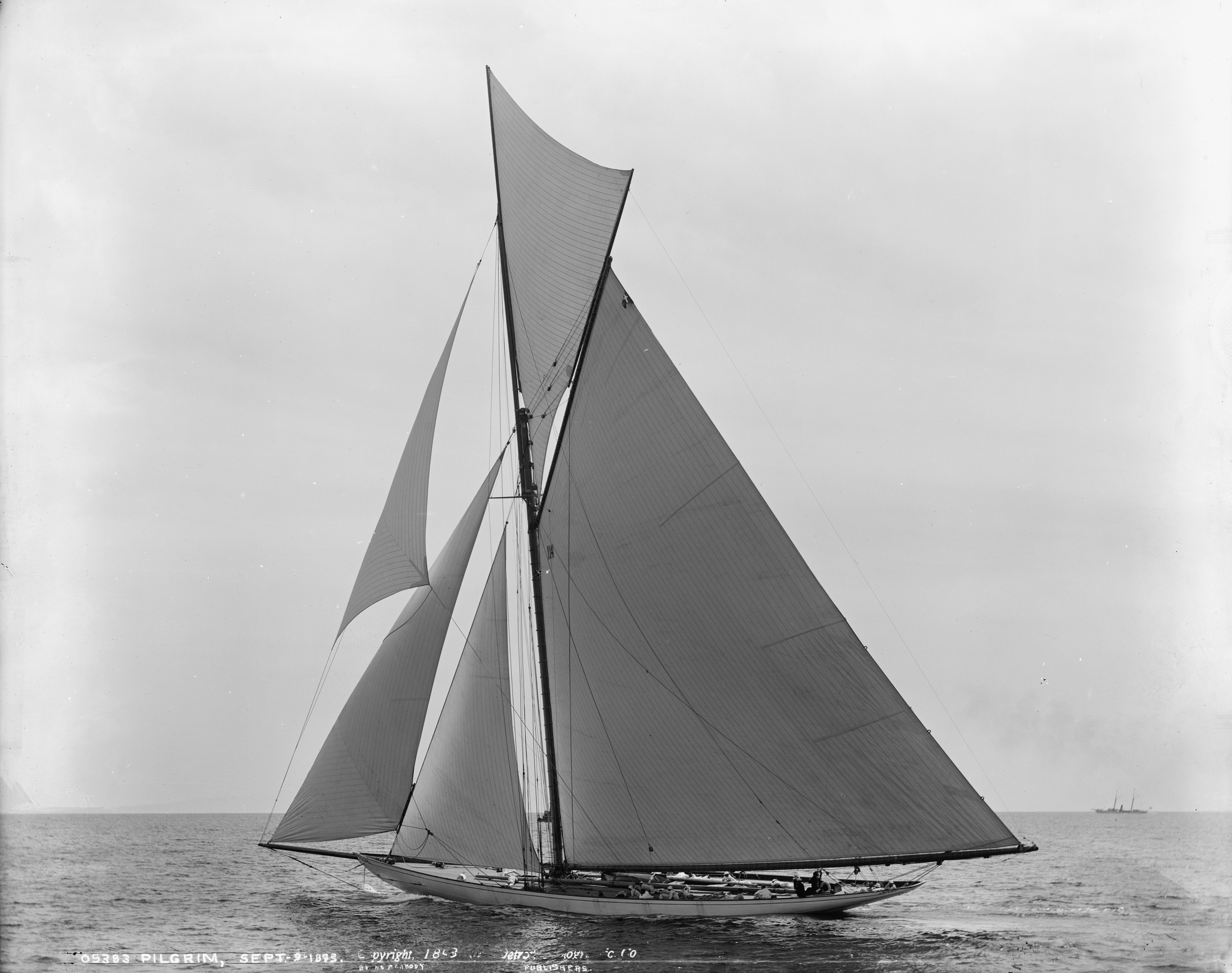 The Bayard Thayer syndicate's sloop Pilgrim (George A. Stewart & Arthur Binney design, built in 1893 at the Pusey & Jones shipyard, DE) was a candidate for the 1893 America's Cup defence. Featuring a very deep fin-bulb keel and skippered by Charles Francis Adams III, she proved difficult to steer. She is pictured here in the selection trials, which she lost to the Vigilant.